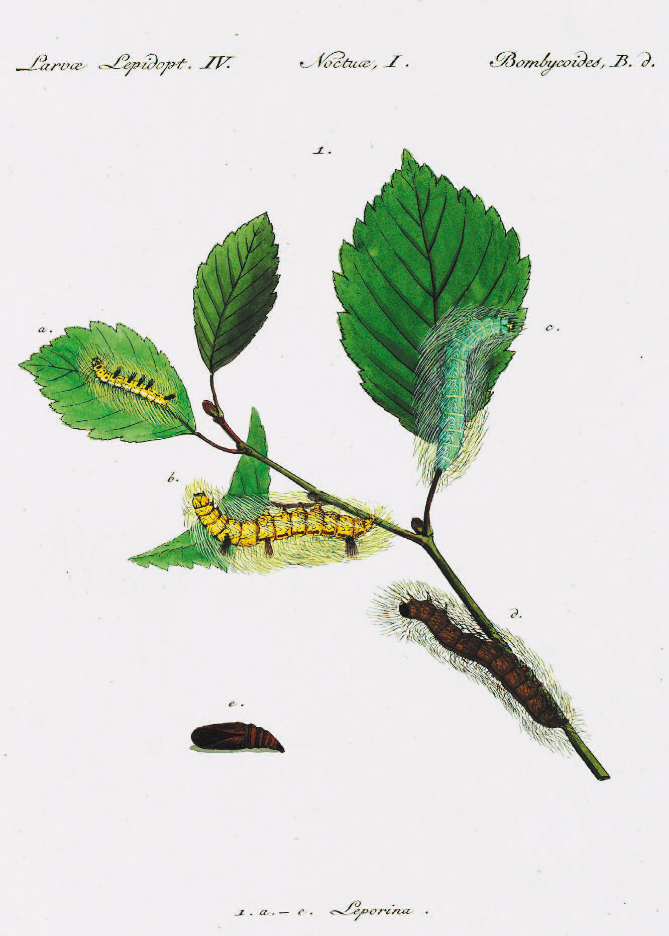 The Miller